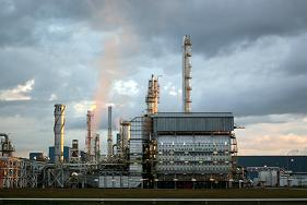 Petronas Fertilizer Kedah, Gurun.